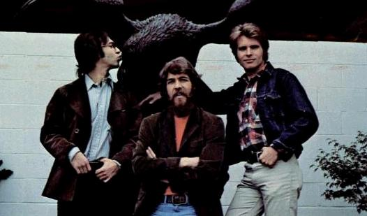 Trade ad for Creedence Clearwater Revival's "Sweet Hitch-Hiker".To better adapt it to his respective Wikipedia article, the ad was cropped and cleaned in a graphics editing program. The original can be viewed at the source below.